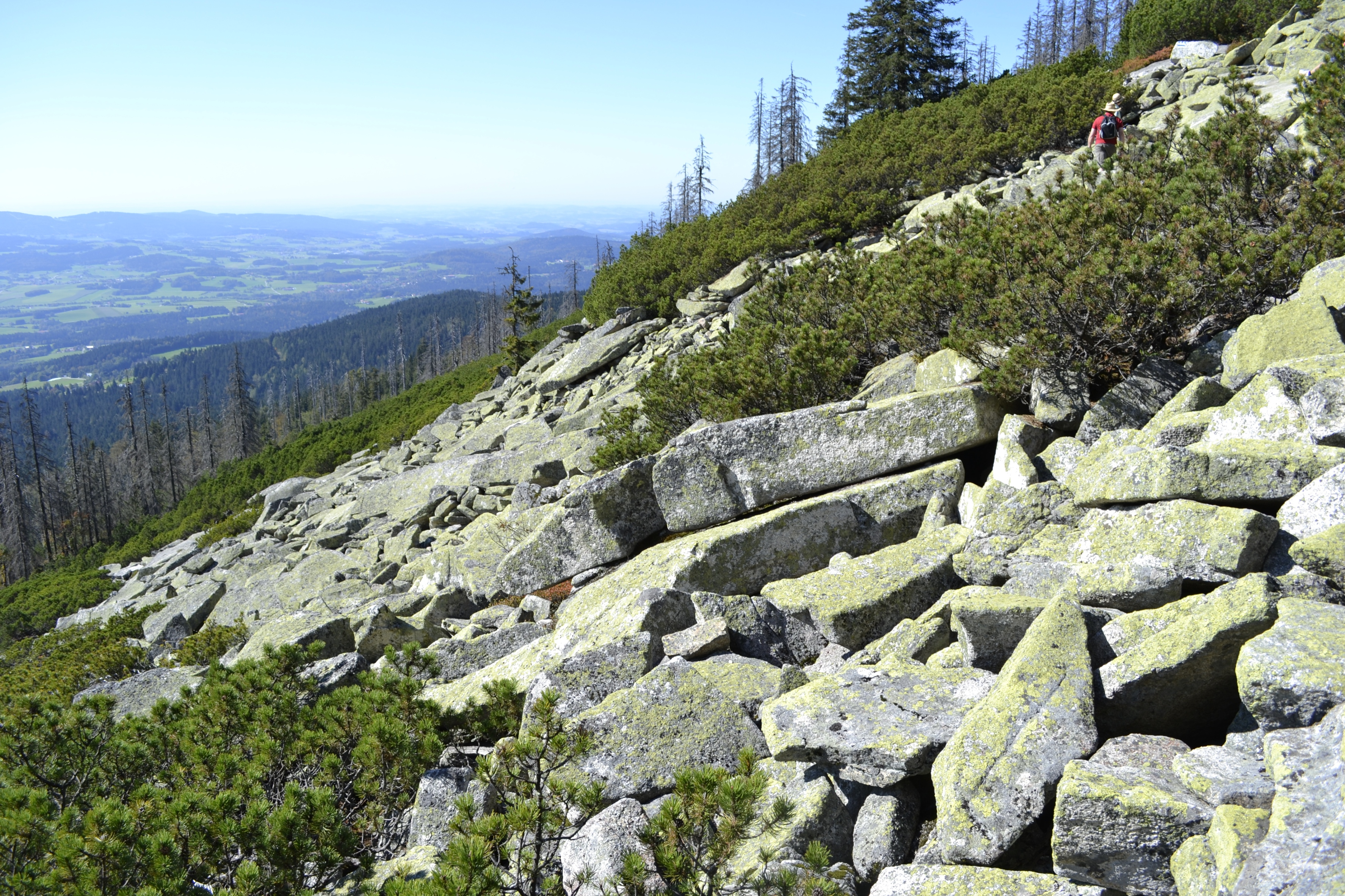 Stone run on the mountain Bayerischer Plöckenstein in Bavaria.